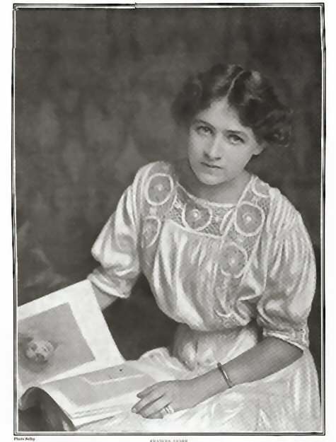 Actress Frances Starr ca. 1907